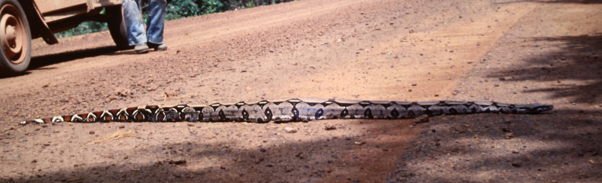 Boa constrictor . Photo: Zanderij-Apoera road, Suriname.